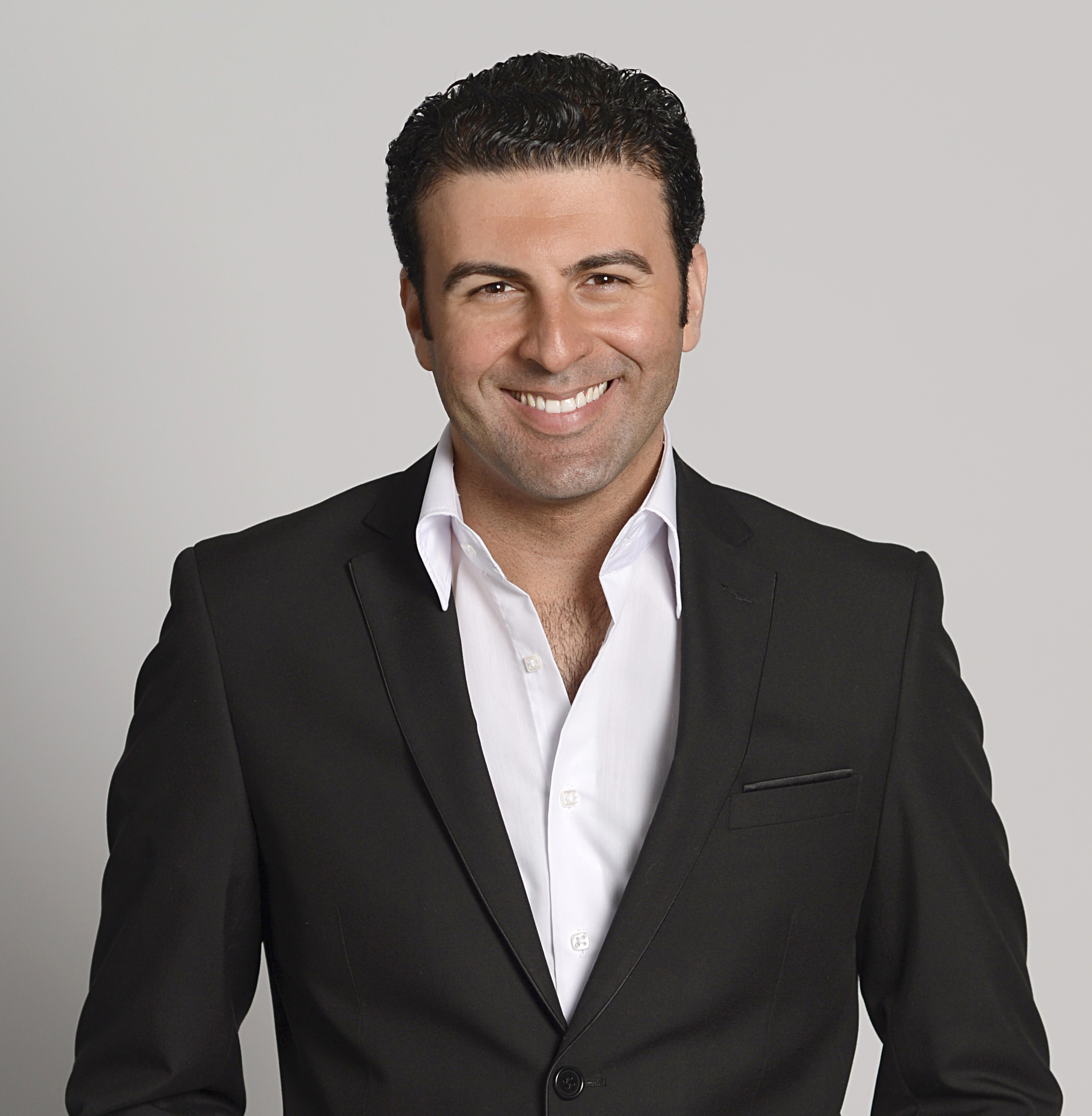 Picture of the opera singer David Serero by Gigi Robb Photograph